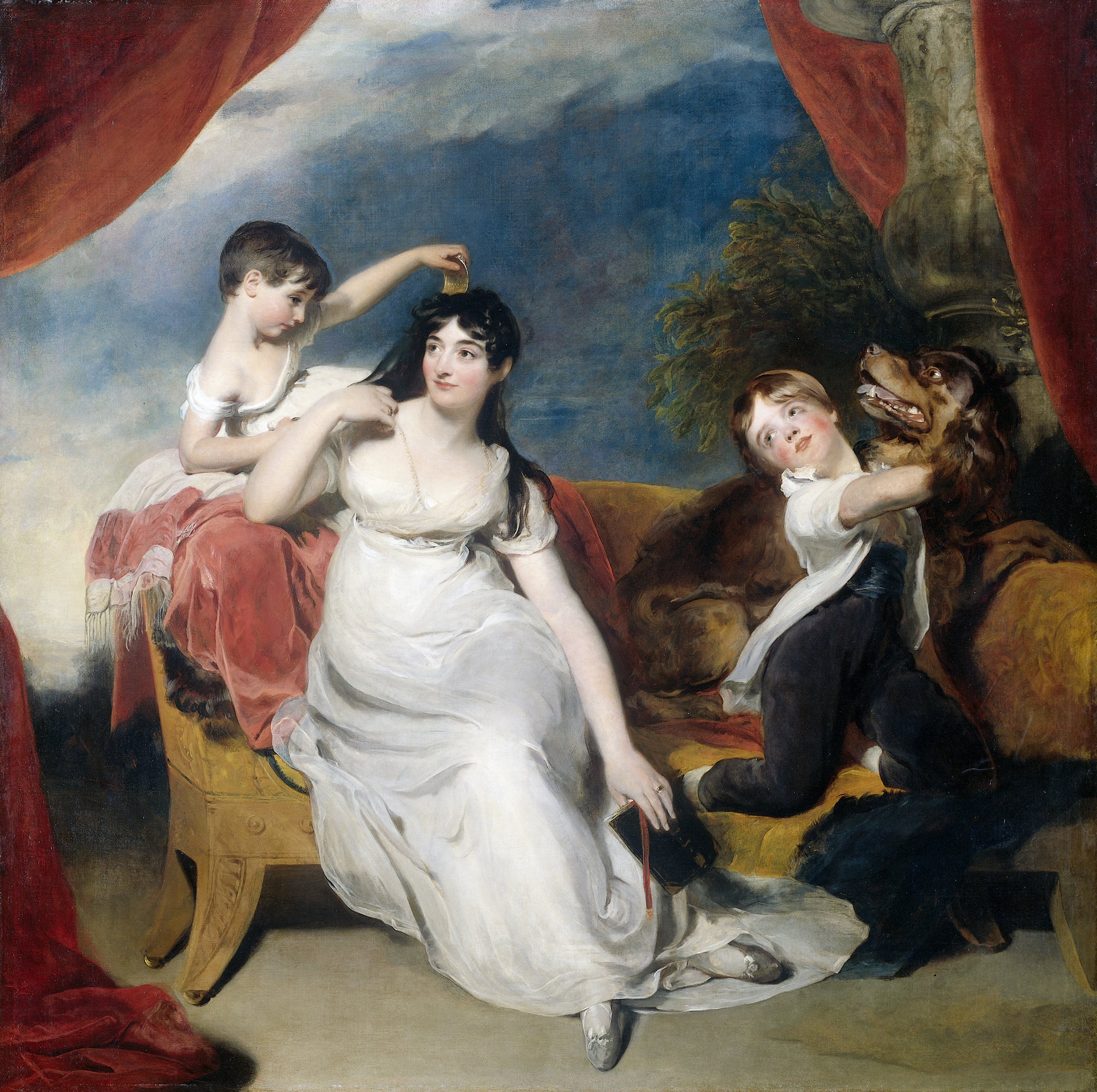 Maria Mathilda Bingham, with two of her children, probably James Bridgeman en Anna Maria. In this portrait, the father, Henry Baring, is missing. Judging by the direction of the gaze of Maria Mathilda Bingham and her son, he must have stood on the left. Maria divorced her husband and then had the painting reduced on that side. Presumably this was done by the artist, who then painted a curtain to close off the composition.